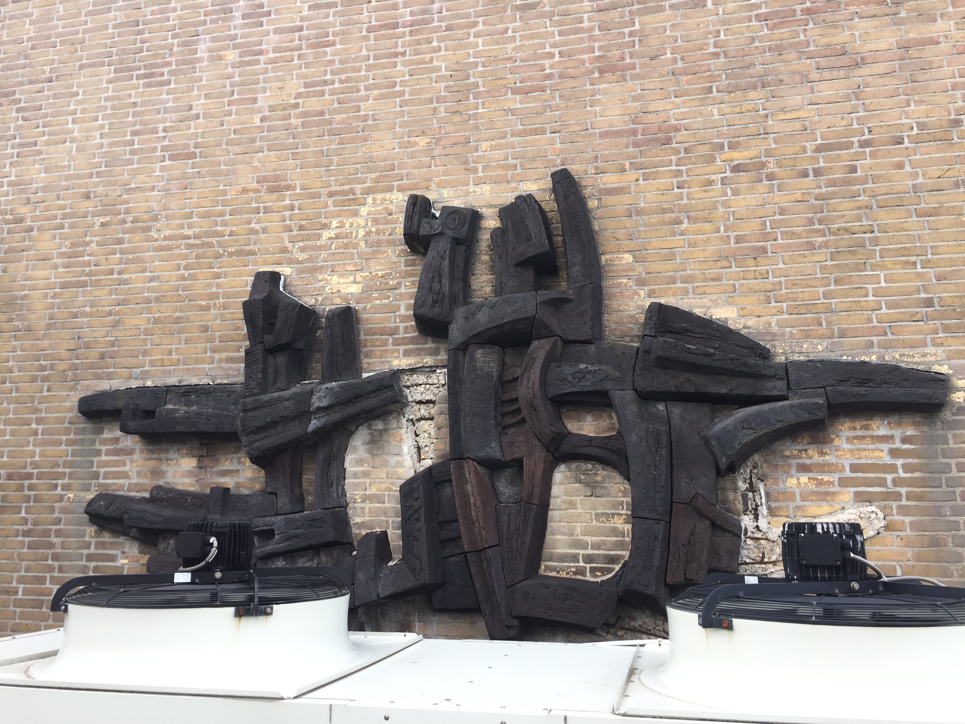 Sculpture Adam by Kees Buurman, Wassenaarseweg 52, Leiden, the Netherlands